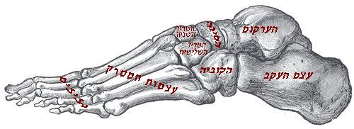 FIG. 291– Skeleton of foot. Lateral aspect.